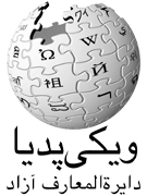 Logo of Persian Wikipedia on first launch.